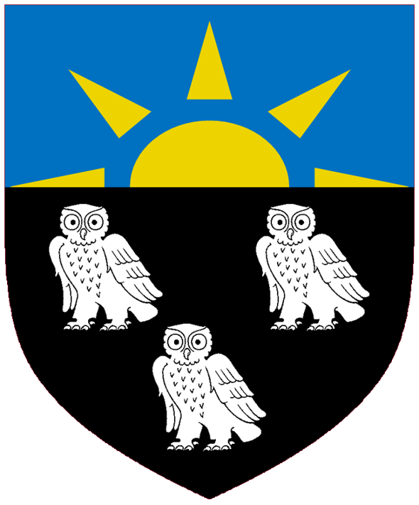 Shield of arms of The Lord Altrincham